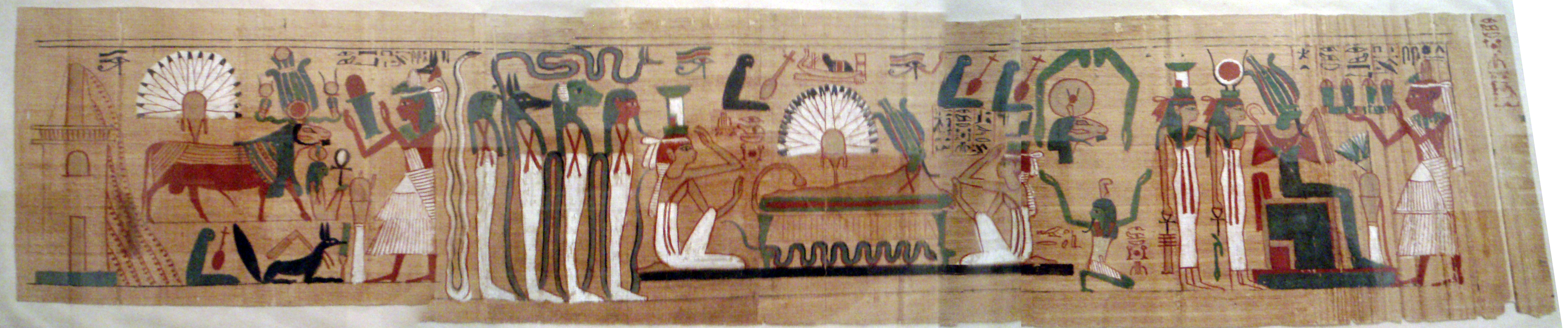 Merged photos depicting a copy of the Ancient Egyptian papyrus depicting the jounrey into the afterlife. This version is known as "Guide to the Afterlife for the Custodian of the Property of the Amon Temple Amonemwidja with Symbolic Illustrations Concerning the Dangers in the Netherworld". Photo(s) taken at the Ägyptisches Museum, Berlin, later merged and cropped using PhotoShop. Catalog number: P 3127.